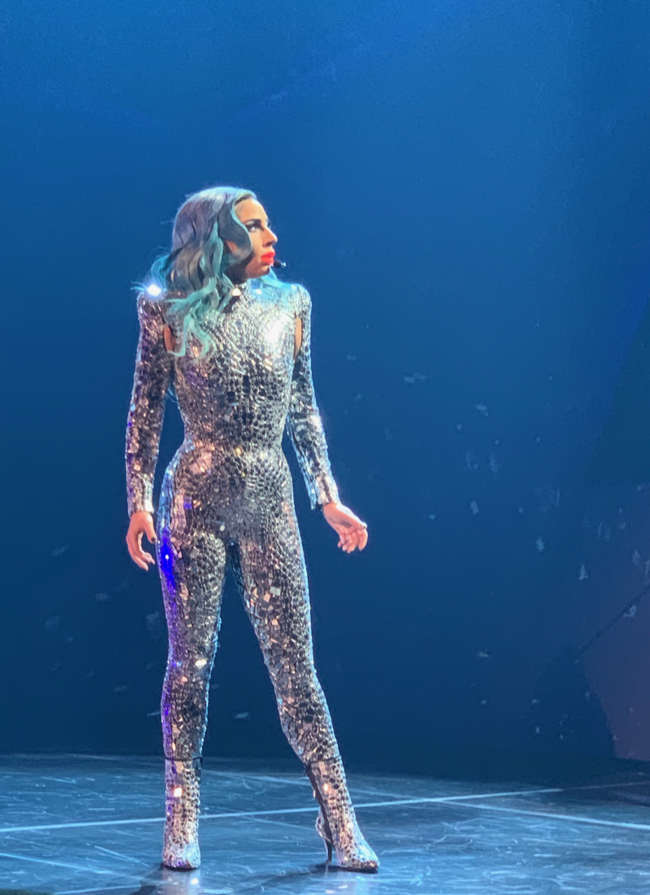 Lady Gaga on stage in a sequined bodysuit looking away from the camera.